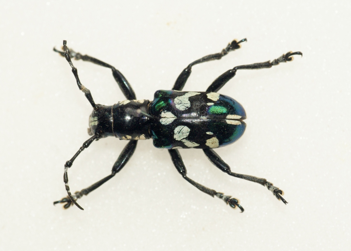 Cerambycidae - In collection